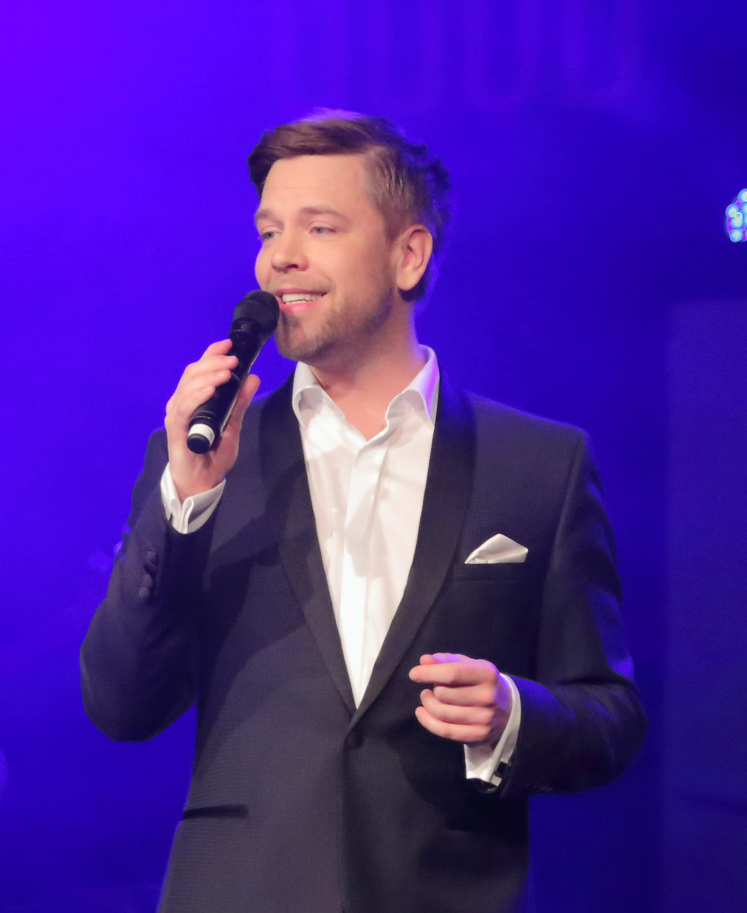 Tom Gaebel during the concert So Good to Be Me in the Bürgerhaus of Ibbenbüren, Kreis Steinfurt, North Rhine-Westphalia, Germany. Photo taken with permission.